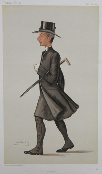 Caricature of The Right Rev. George Howard Wilkinson, D.D., Bishop of Truro.